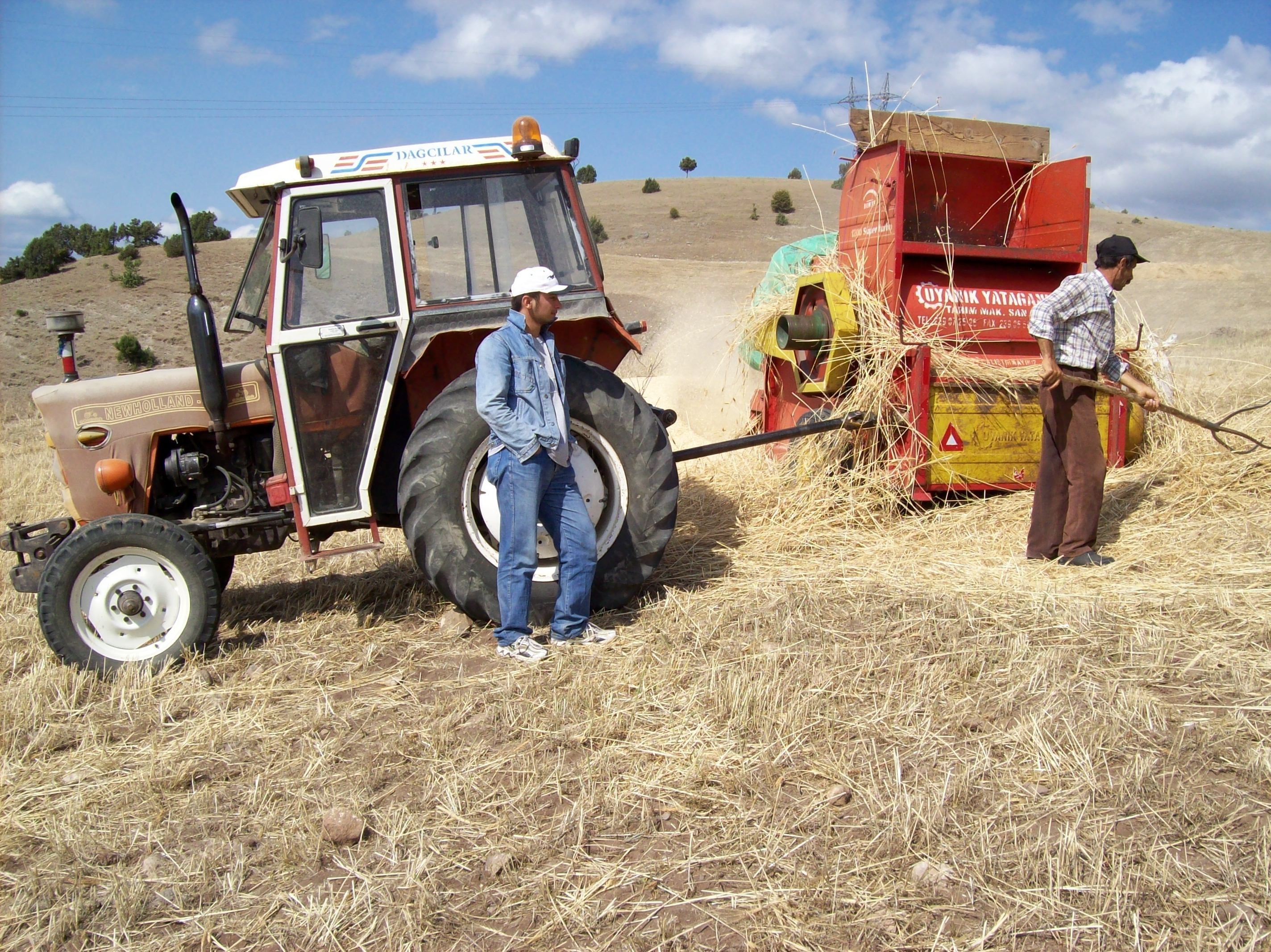 Wheat harvesting in Tekmen, Turkey. A tractor (note that the "New Holland" logo is just part of the drapery, but it actually looks like an old NH tractor) with a PTO-driven threshing (?) machine.